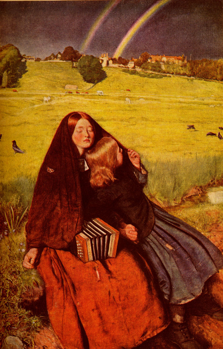 Variant of John Everett Millais's “The Blind Girl”